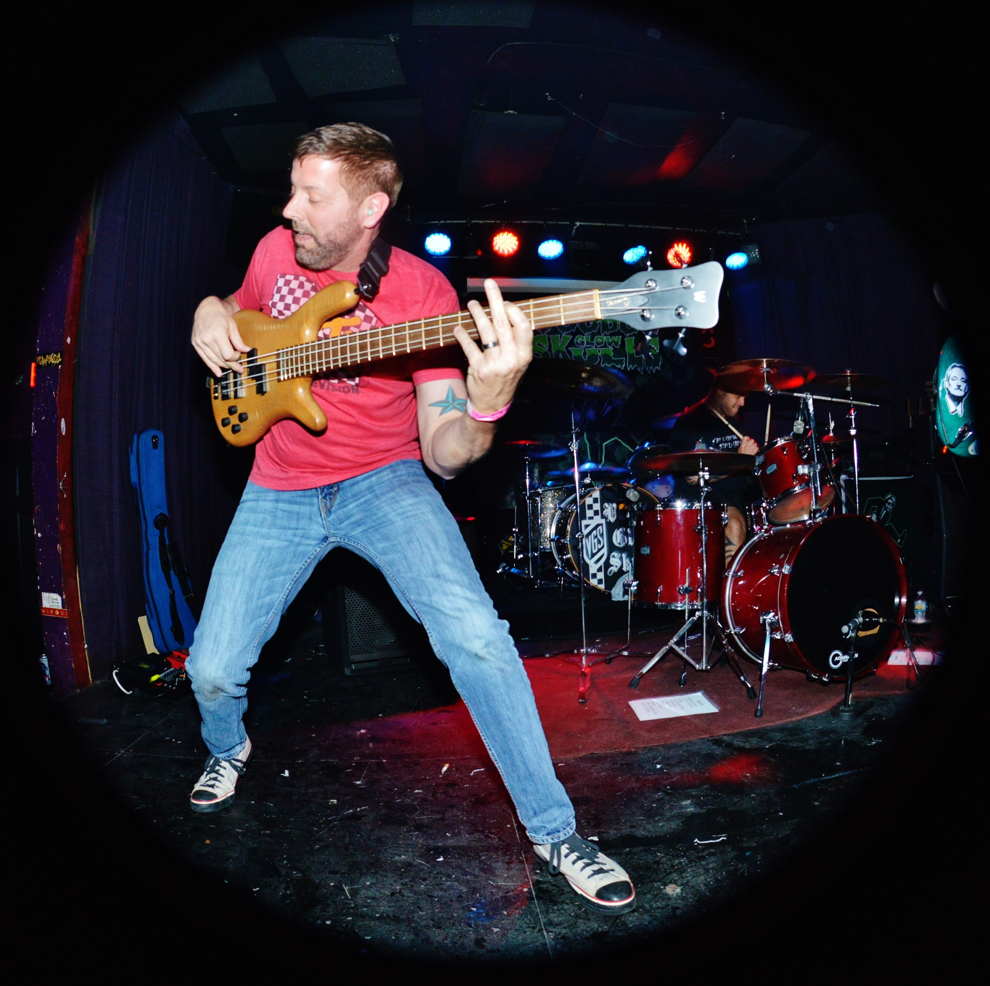 Kyle Sokol Live